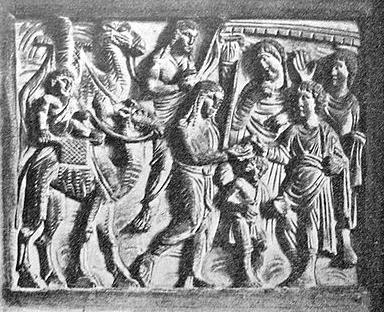 cátedra maximiano